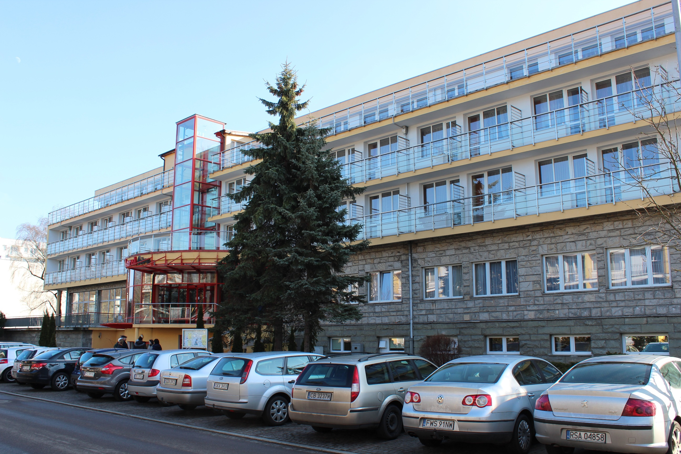 Koral Live Sanatorium in Kołobrzeg